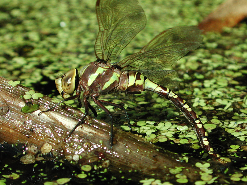 Aeshna canadensis laying eggs, Carver Park Reserve, MN, USA